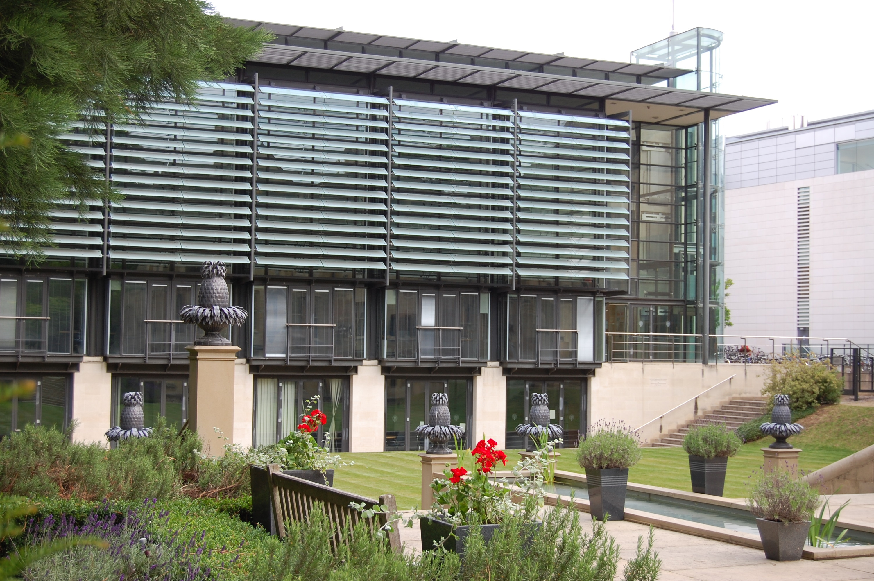 Exterior photo of the Rothermere American Institute, University of Oxford